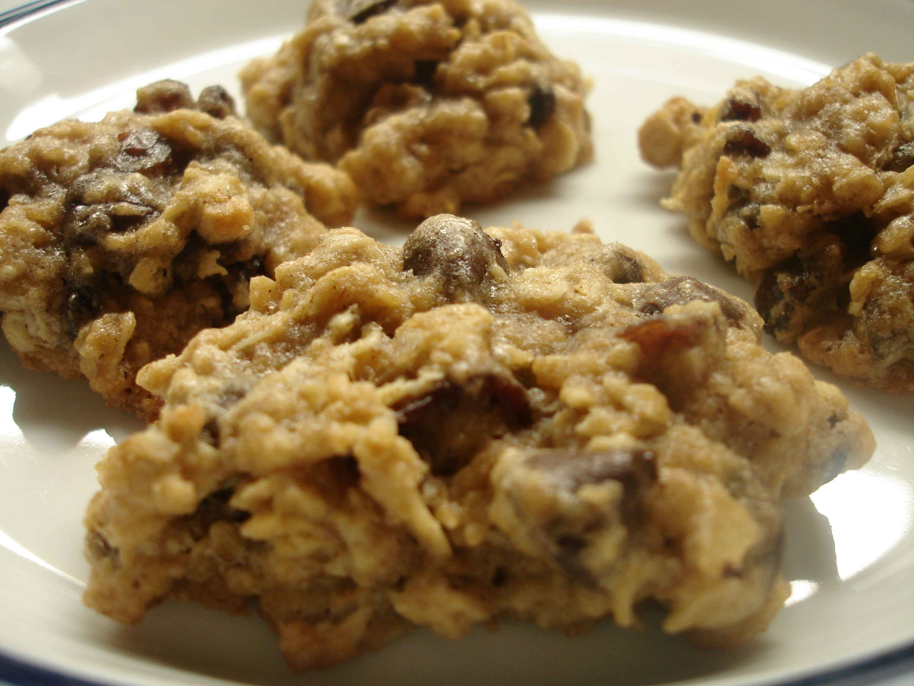 High Fiber Oatmeal Raisin Chocolate Chip Cookies.